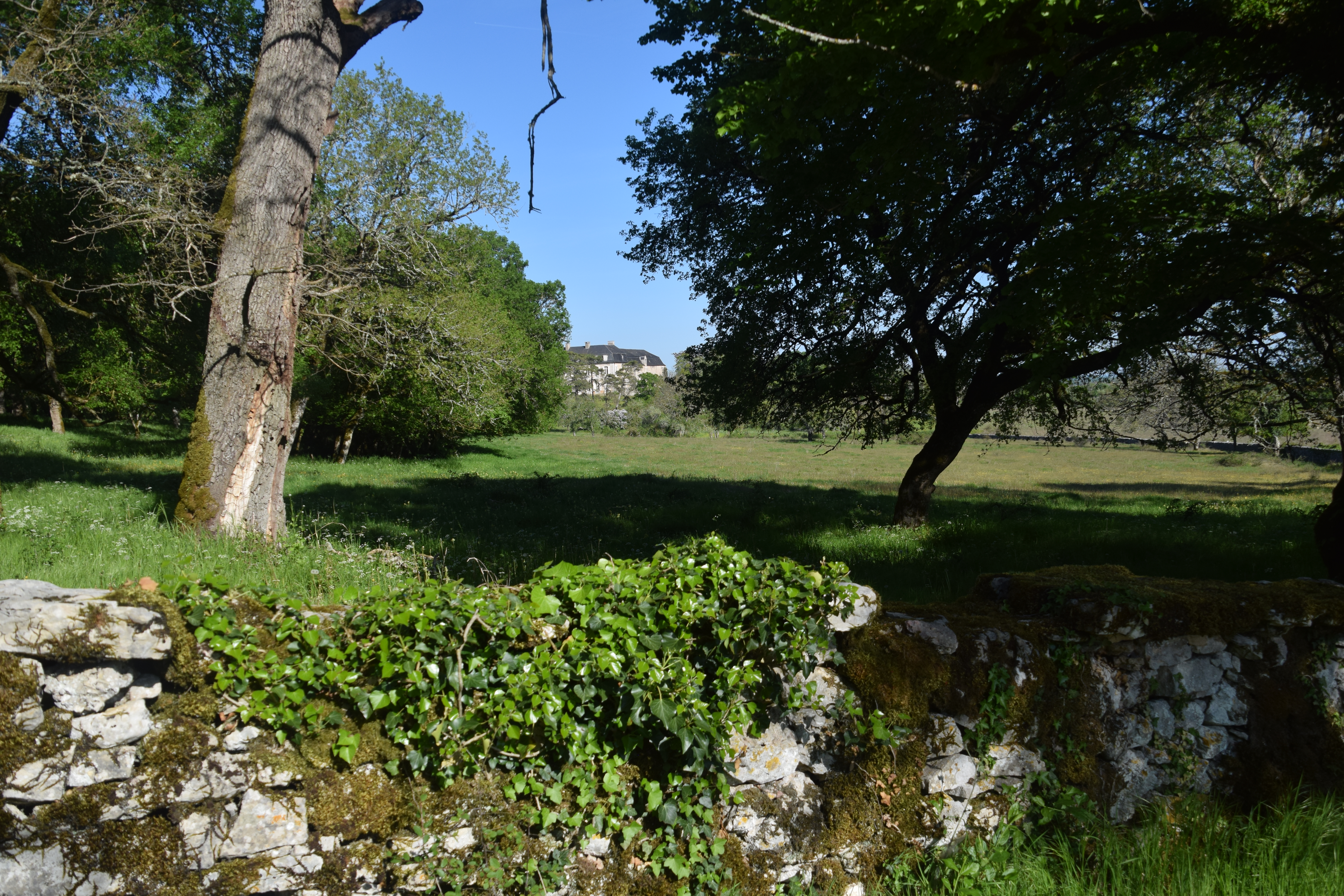 Château de la Pannonie, Couzou, Lot, France